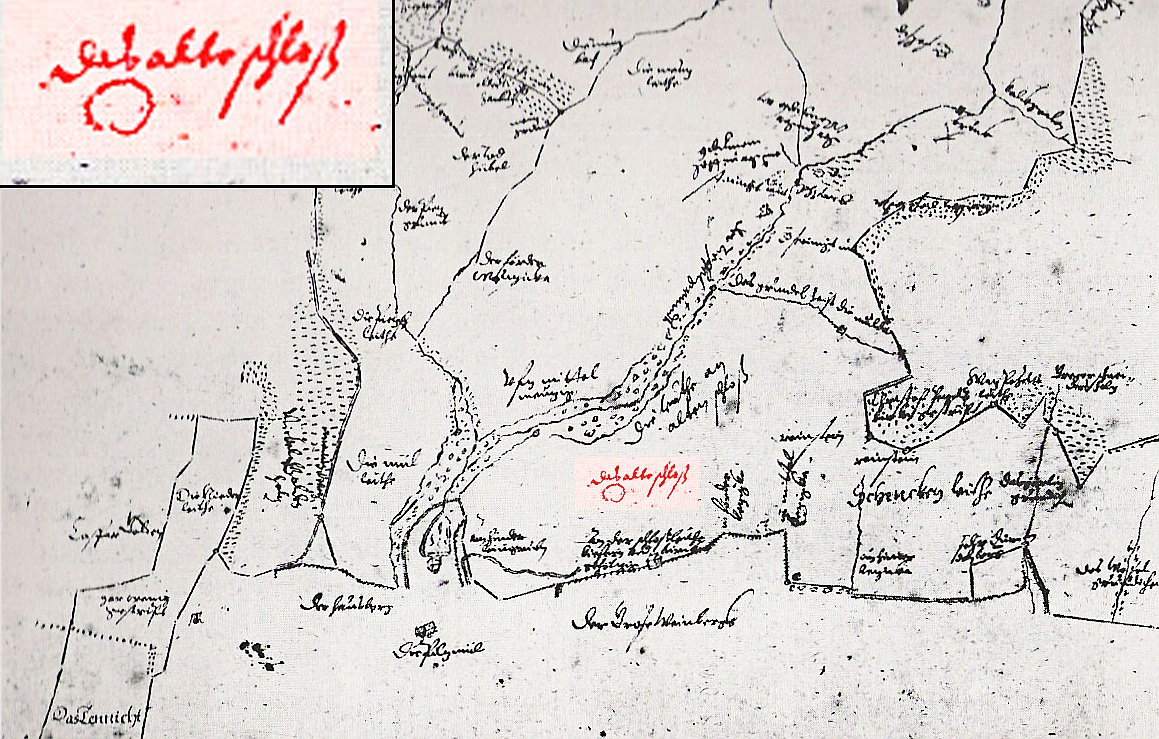 Old map of the area of the artificial ruin near Pillnitz (around 1600)